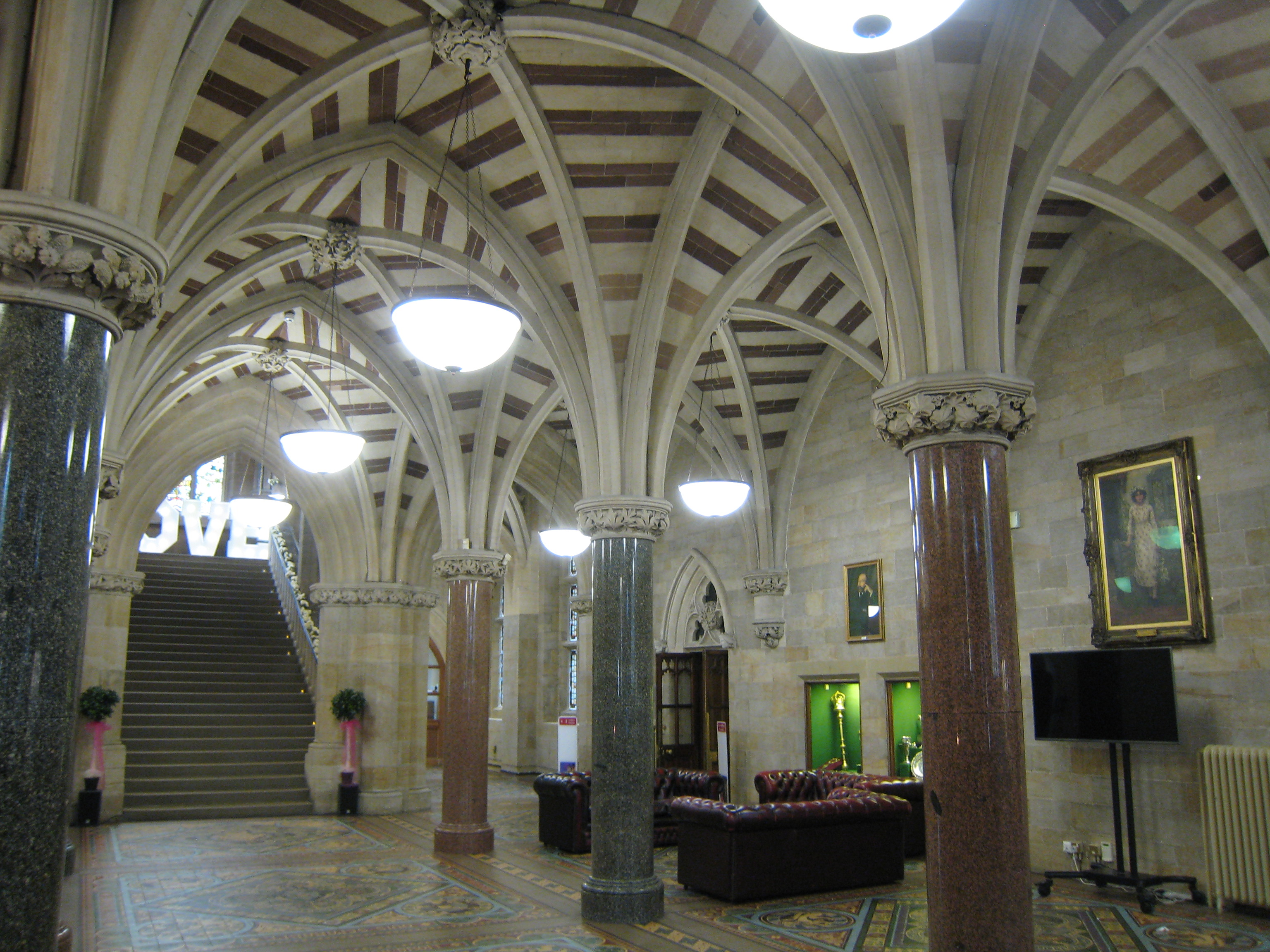 Rochdale Town Hall interior: entrance hall with columns and staircase. There is a word "LOVE" temporarily at the top of the stairs as part of a wedding reception.